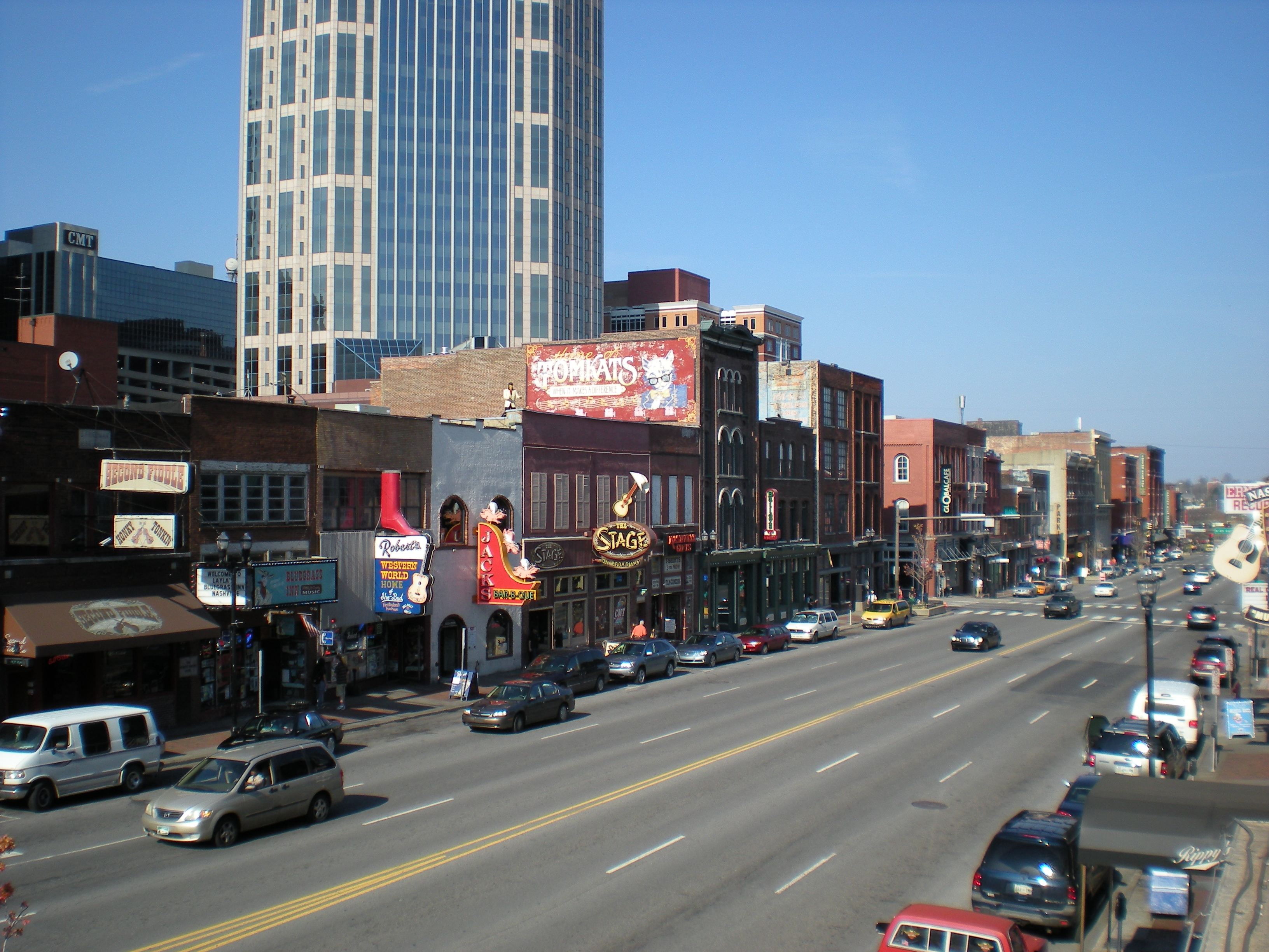 Downtown Nashville